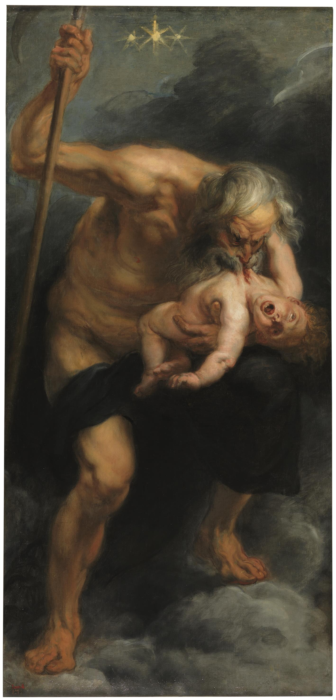 Saturn, Jupiter's father, devours one of his sons.